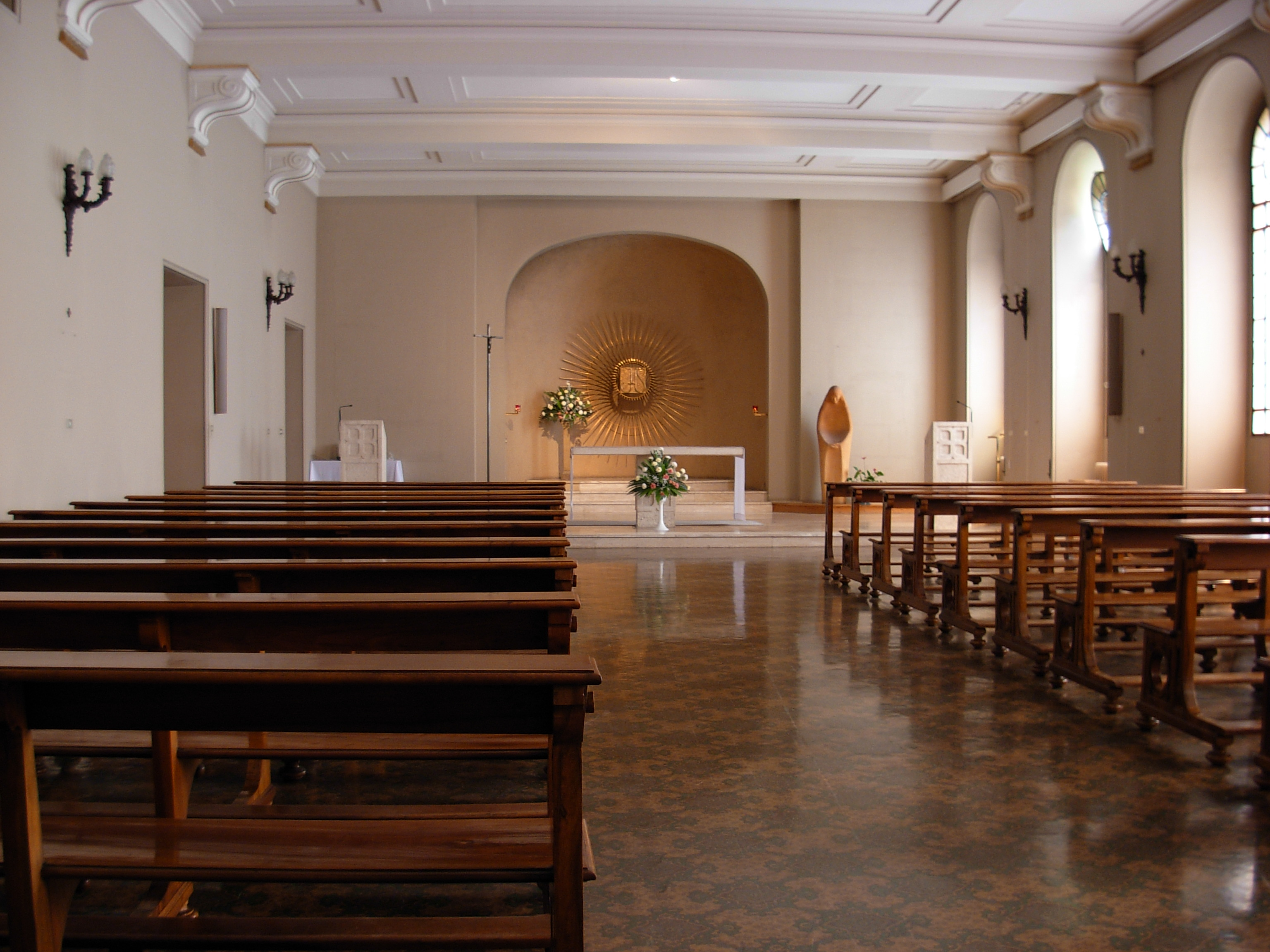 Gregoriana,kapela v tretjem nadstropju